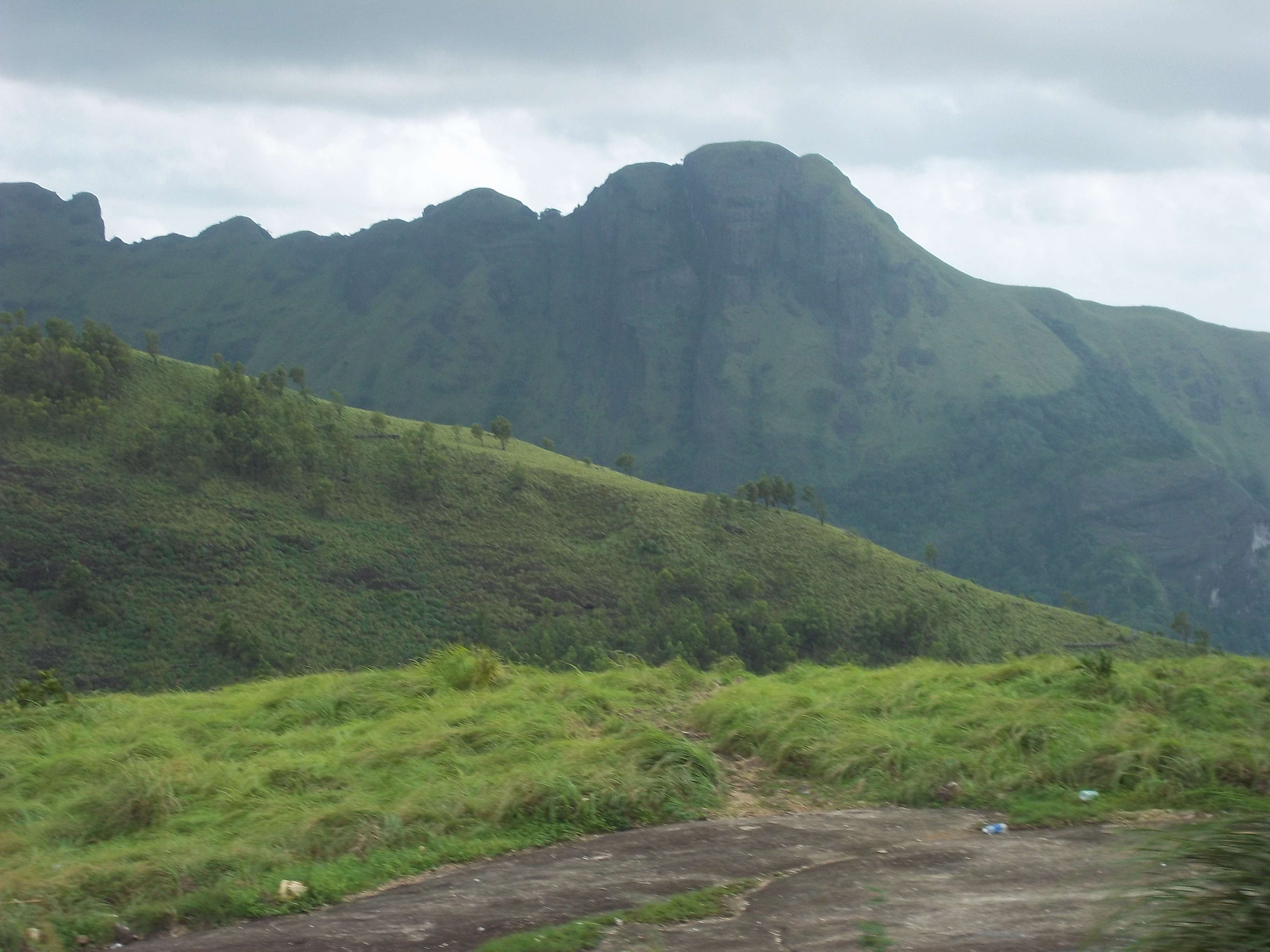 ponmudi ,kerala